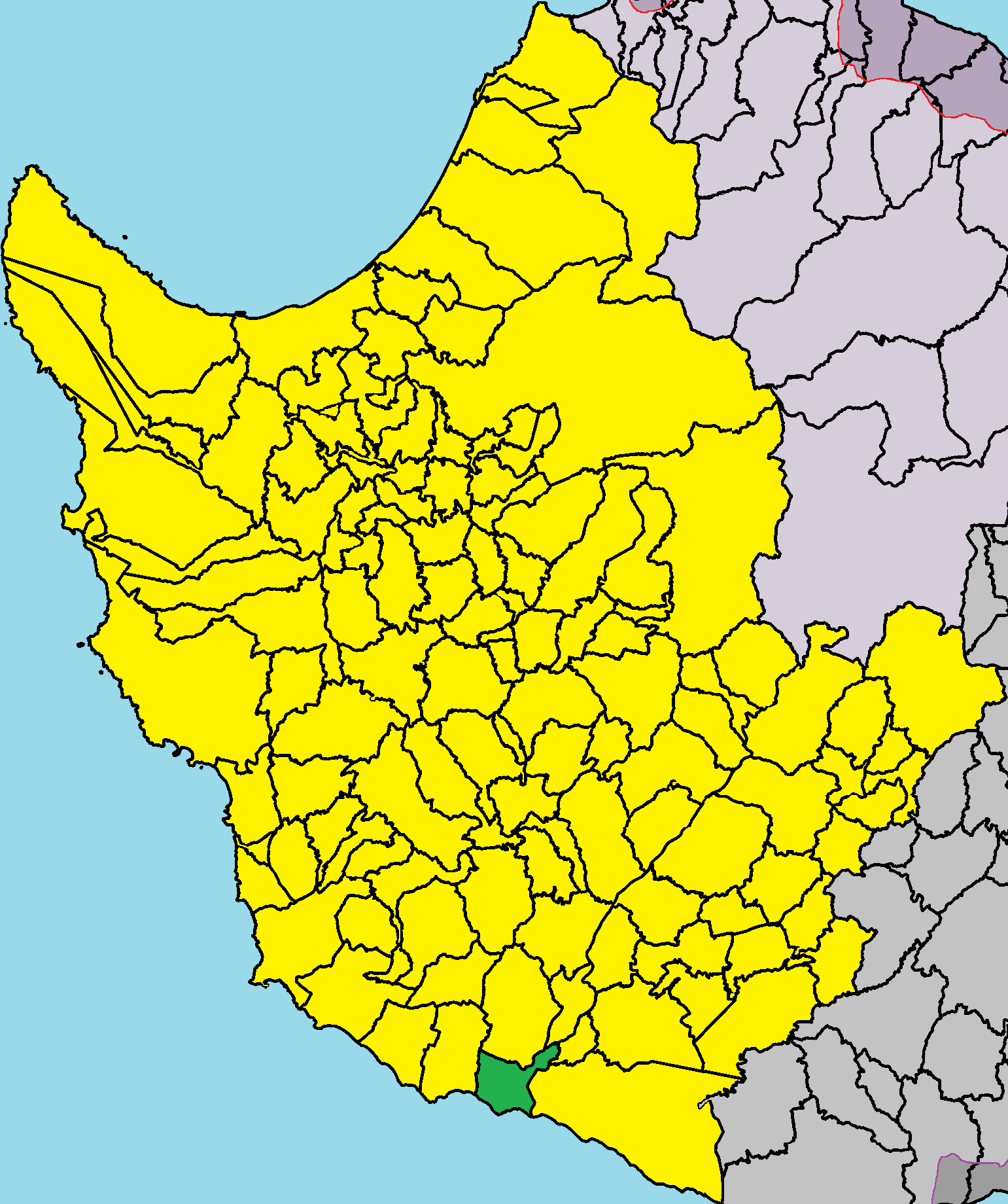 Mandria, Paphos in Paphos District.